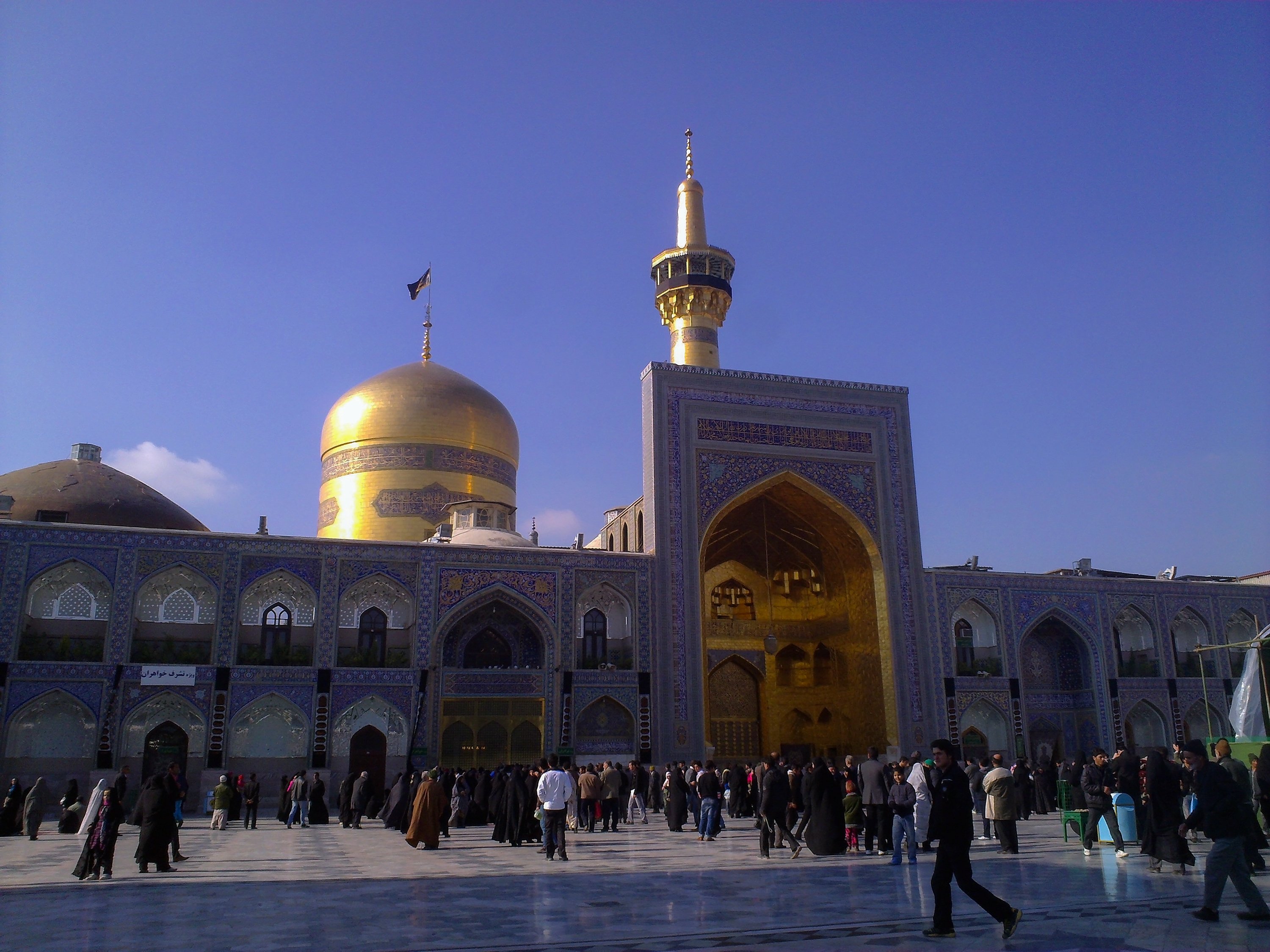 The Imam Reza shrine (Persian: حرم امام رضا) in Mashhad, Iran is a complex which contains the mausoleum of Imam Reza, the eighth Imam of Twelver Shiites. It is the largest mosque in the world by dimension and the second largest by capacity. Also contained within the complex are the Goharshad Mosque, a museum, a library, four seminaries, a cemetery, the Razavi University of Islamic Sciences, a dining hall for pilgrims, vast prayer halls, and other buildings.